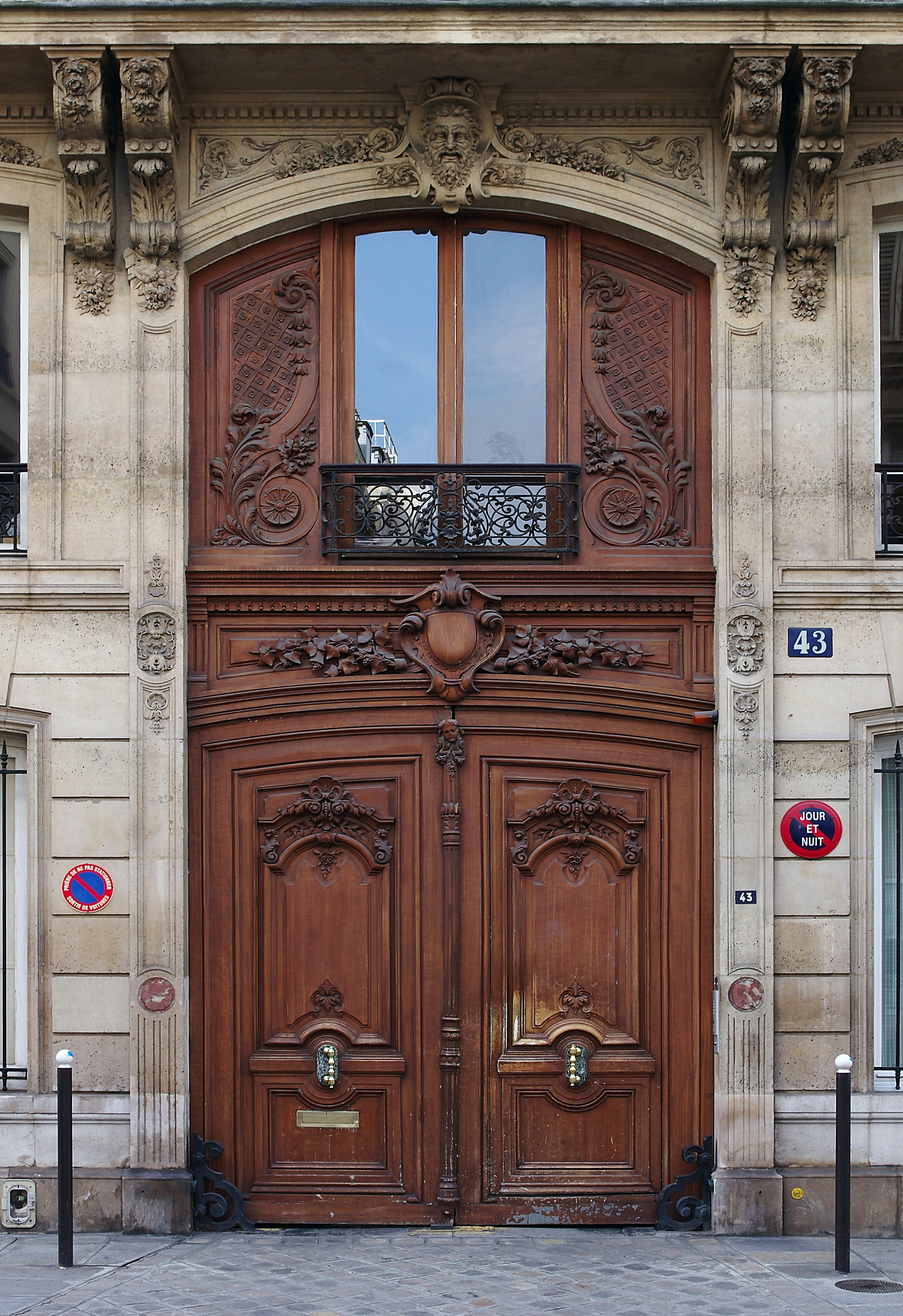 Arch door, 43 rue La Bruyère, Paris, France.